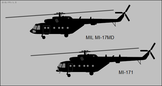 Side view silhouettes showing Mil Mi-17 variants.